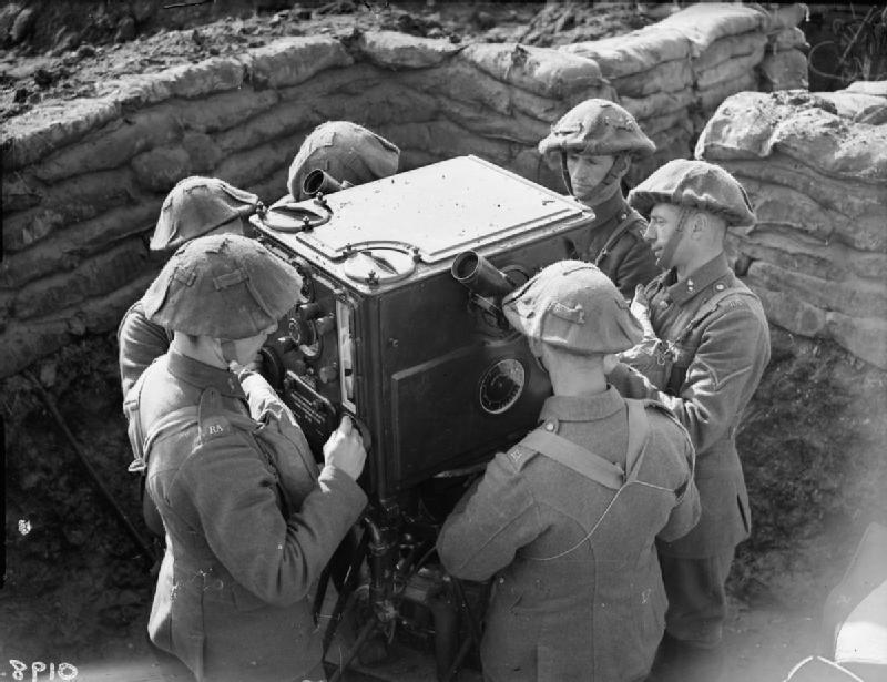 The British Army in France 1939 A predictor crew at work at a 3-inch anti-aircraft gun site of 2nd AA Battery, 1st AA Brigade, near BEF GHQ at Wanquetin, 19 October 1939.